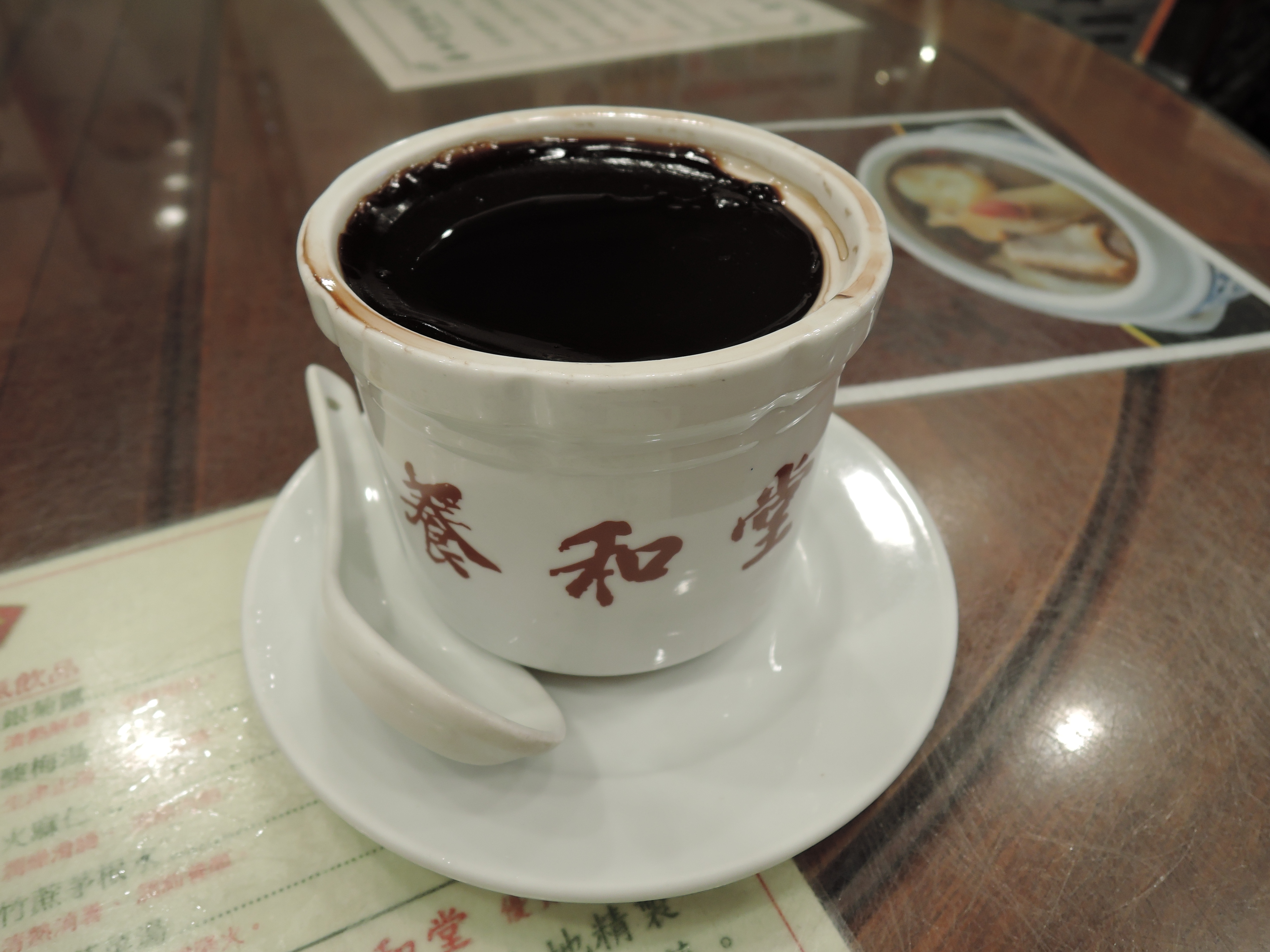 A hot bowl of Gui Ling Gao from Yeung Wo Tang in the Chinese herbal tea shop at yuen long